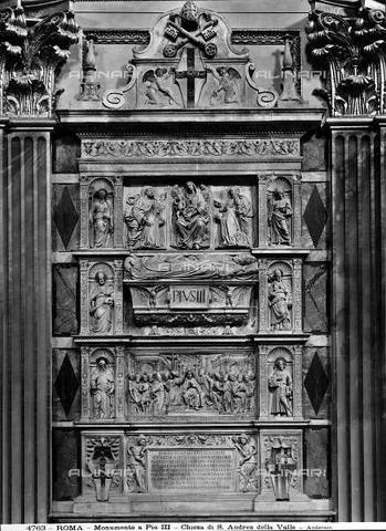 Wall tomb of Pius III (1439–1503) in Basilica Sant'Andrea della Valle in Rome